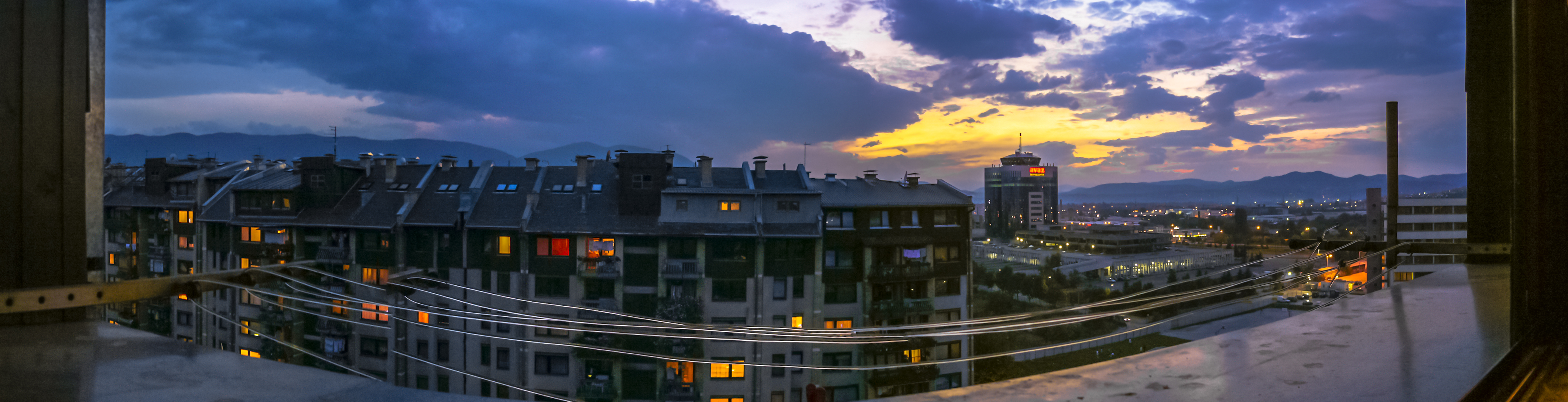 Vojničko polje, Novi Grad, Sarajevo in sunset